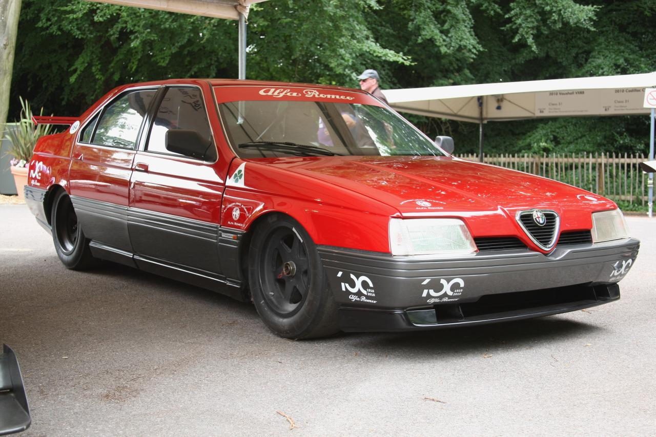 Alfa Romeo 164 procar. The car was built for Alfa Romeo by Brabham with an Alfa Romeo V10 engine and an Alfa Romeo 164 body. It was designated by Brabham as the BT57.